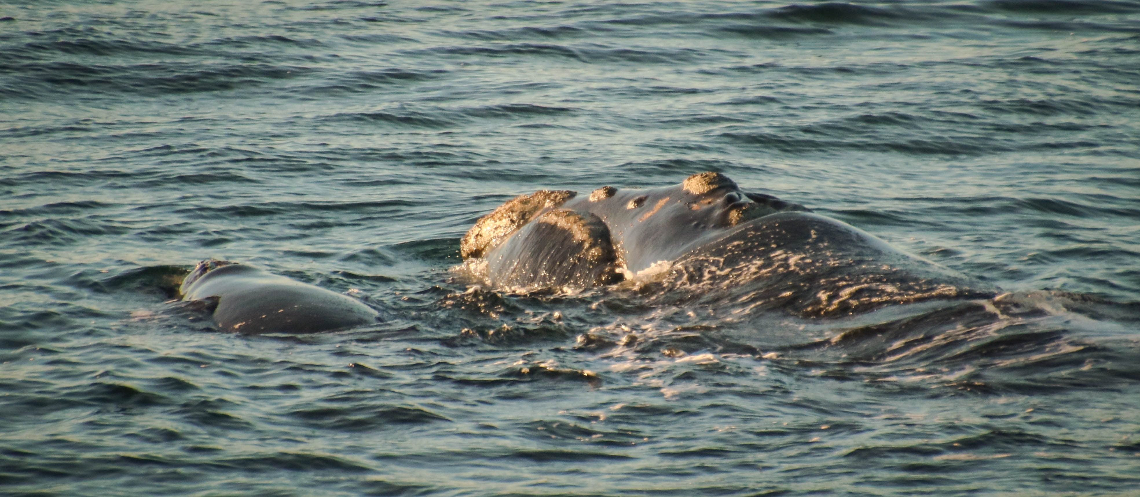 Hermanus land based whale watching